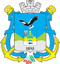 Nikolaevsk-na-Amure (Khabarovsk kray), coat of arms (1999)